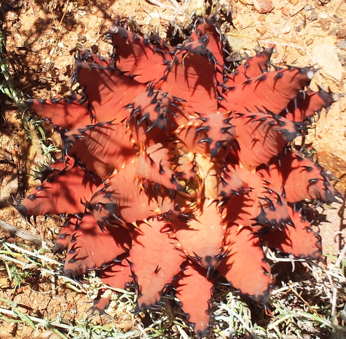 Aloe melanacantha red from sun and drought - Karoo Desert NBG